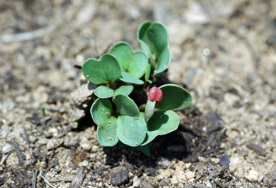 sprouting chonggakmu(chonggak radish)